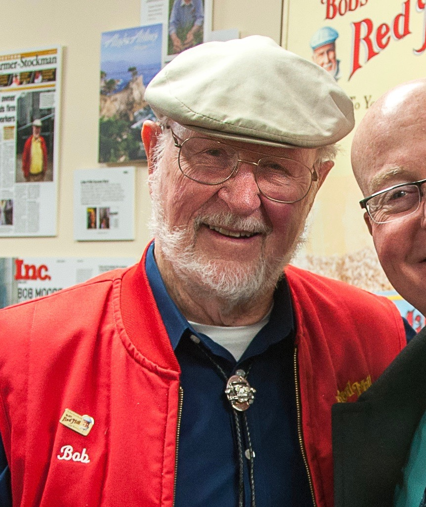 bob and chuck